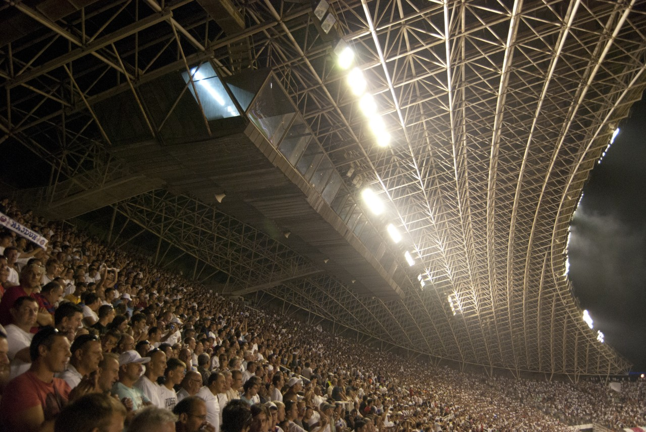 Poljud - commentator cabins